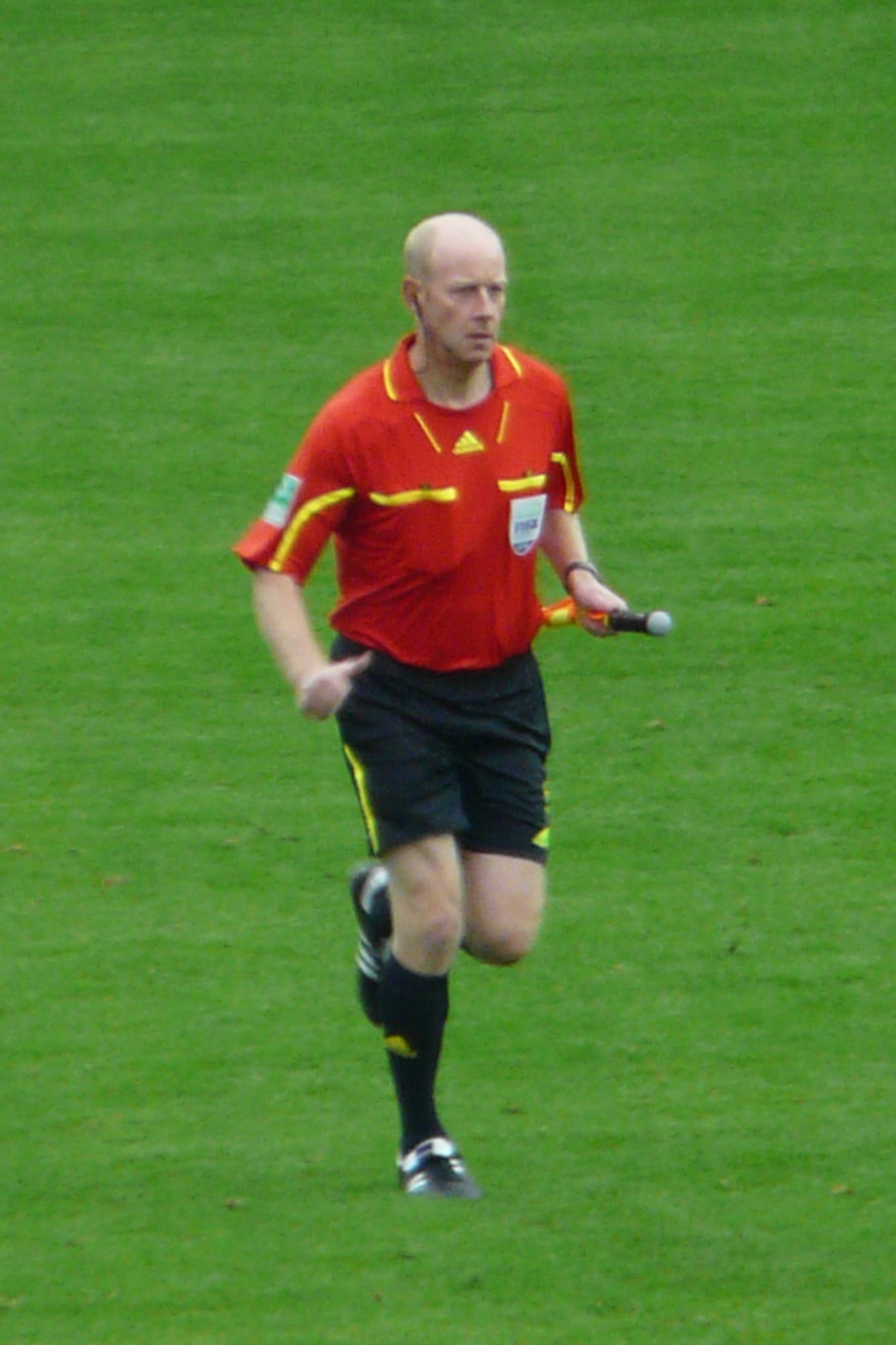 Jan-Hendrik Salver Referee